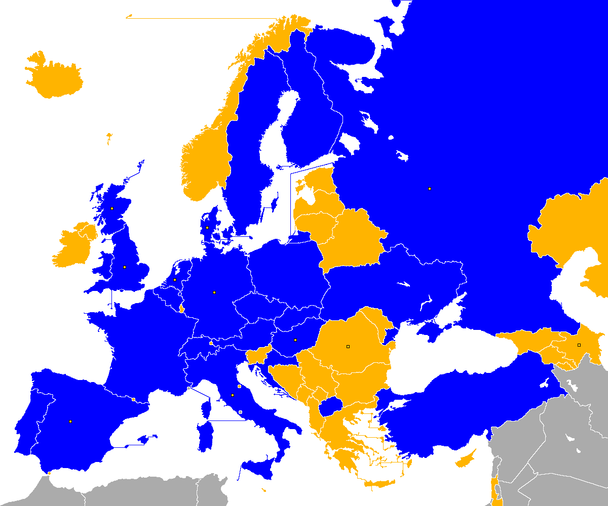 UEFA Euro 2020 Qualifiers Map